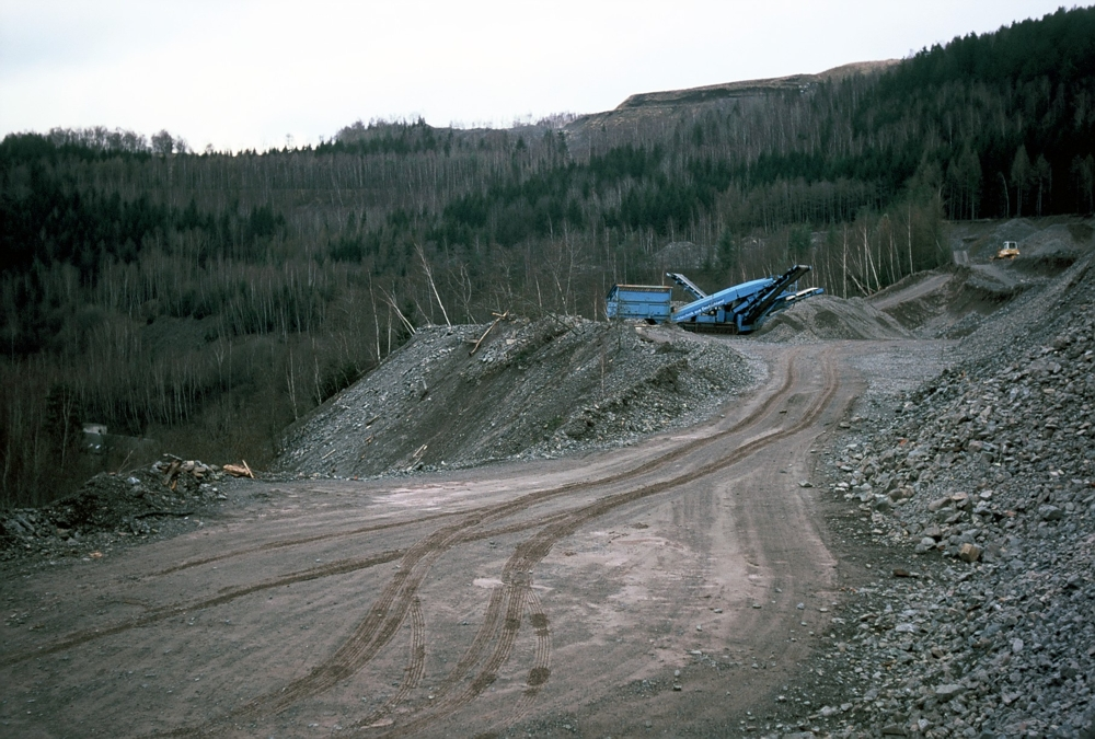 Dump of former uranium mine shaft 235 in Antonsthal, Erzgebirge Mts, Germany